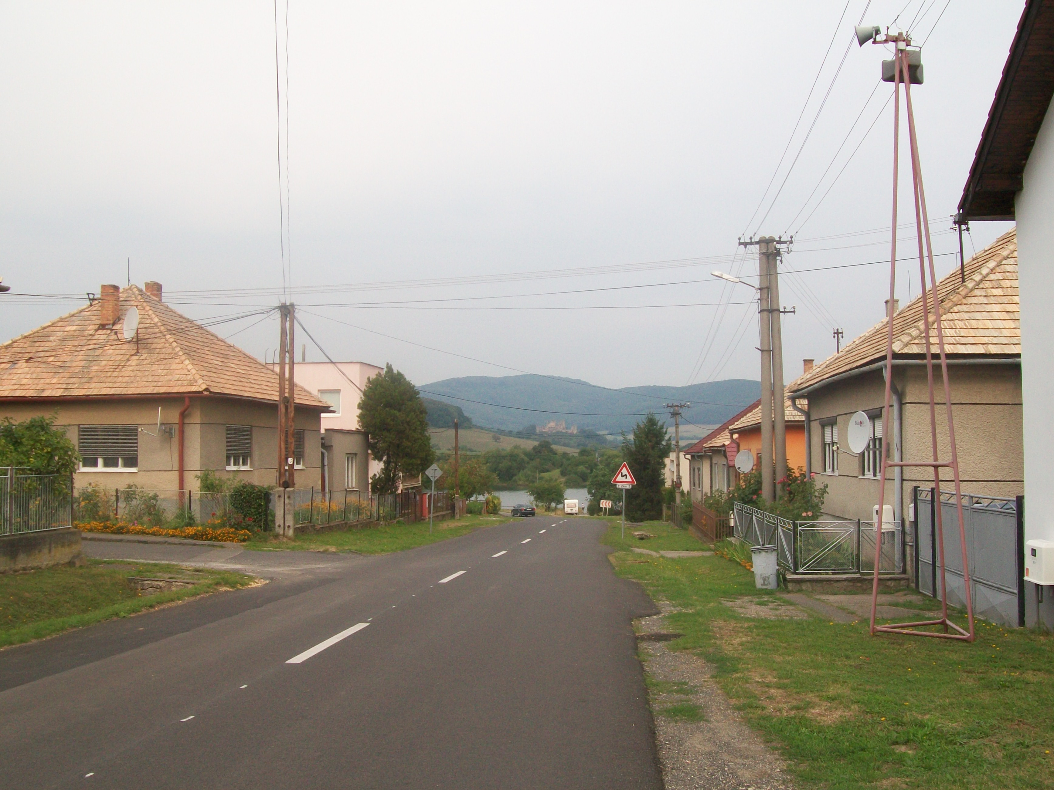 Street of the village Ružiná